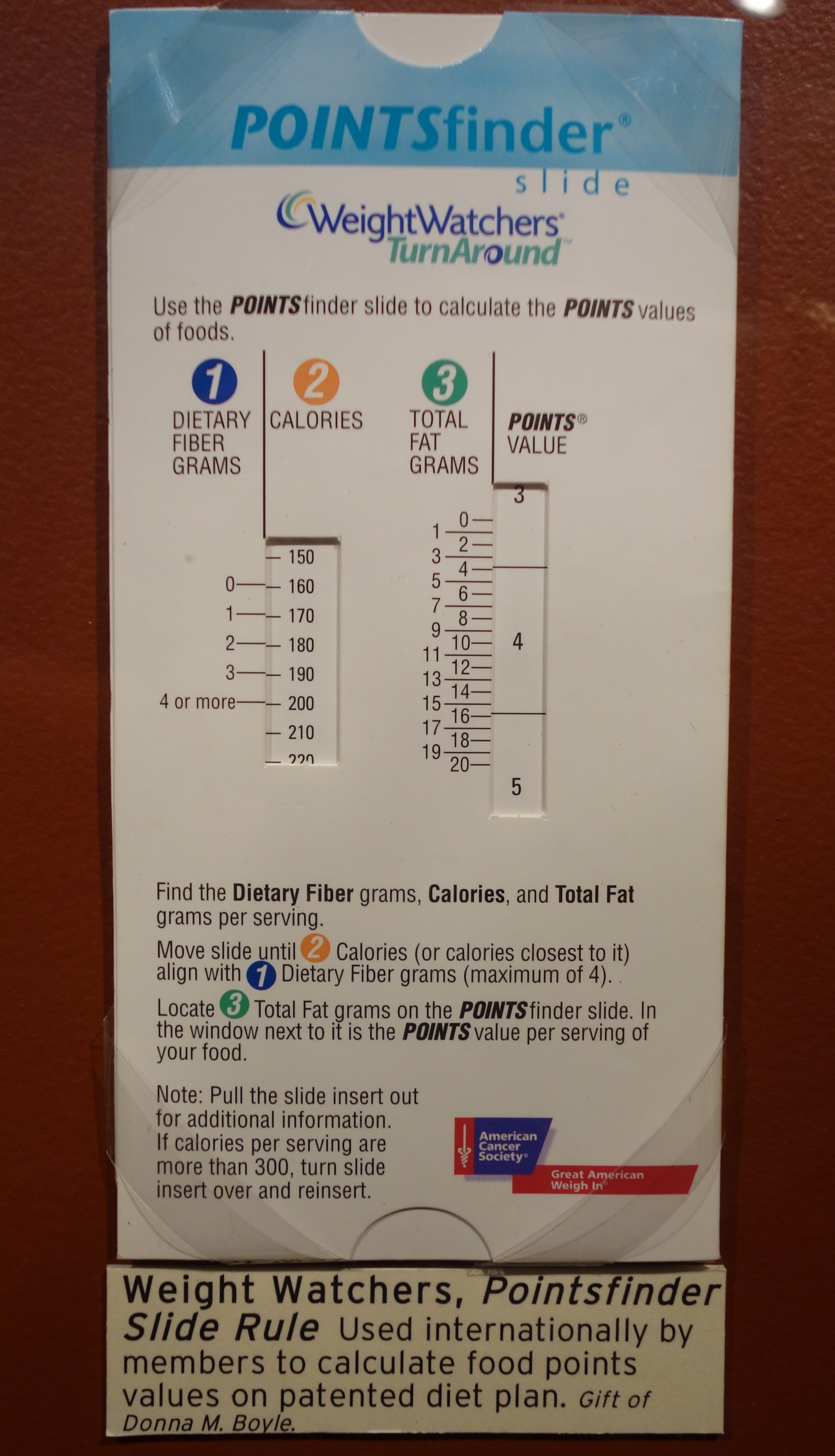 MIT Slide Rule Collection, MIT Museum, Cambridge, Massachusetts, USA. The museum permitted photography without restriction.